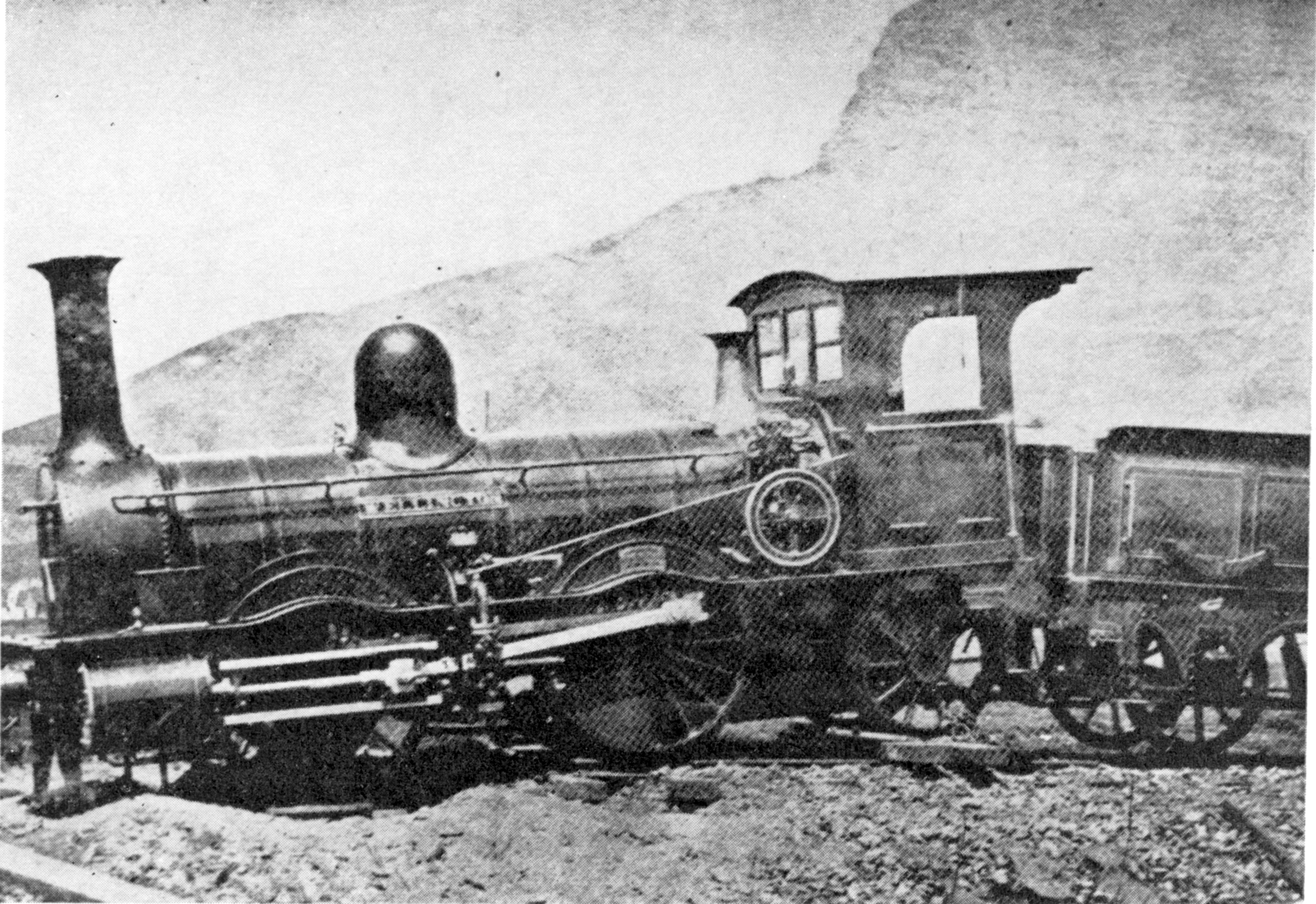 Cape Government Railways, ex Cape Town Railway & Dock 0-4-2 no. 4 “Wellington” after having been deliberately derailed during labour troubles in the Colony